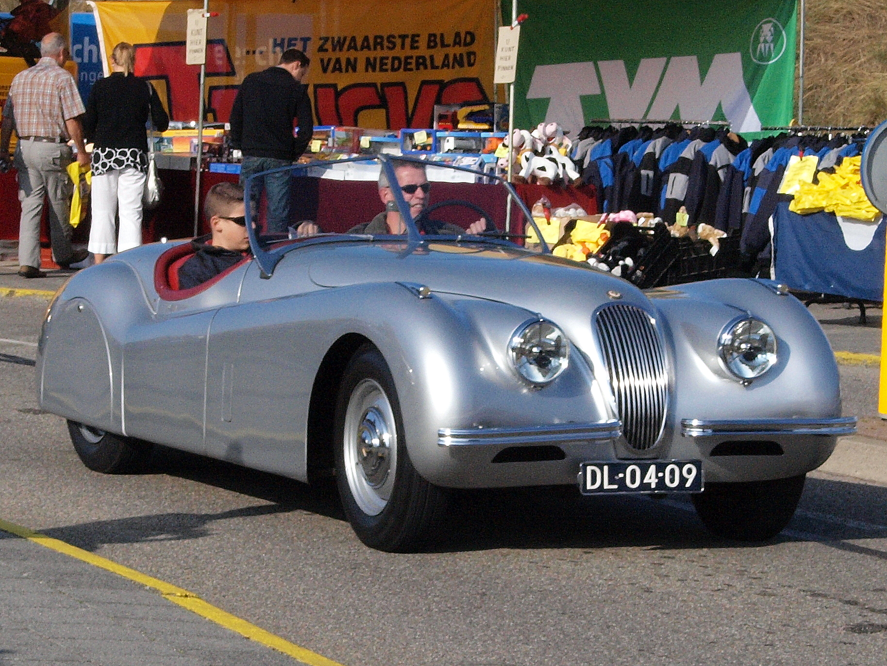 Photographed at the Nationaal Oldtimer Festival Zandvoort 2009, The Netherlands. OLYMPUS DIGITAL CAMERA